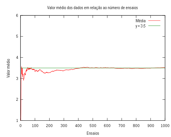 An illustration of the law of large numbers, similar to File:LLN_Die_Rolls.gif but using the png format instead of gif. This uses different data from that and hence it looks different.